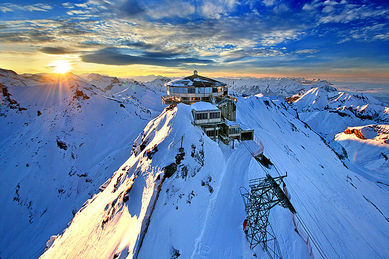 Schilthorn - view from Helicopter